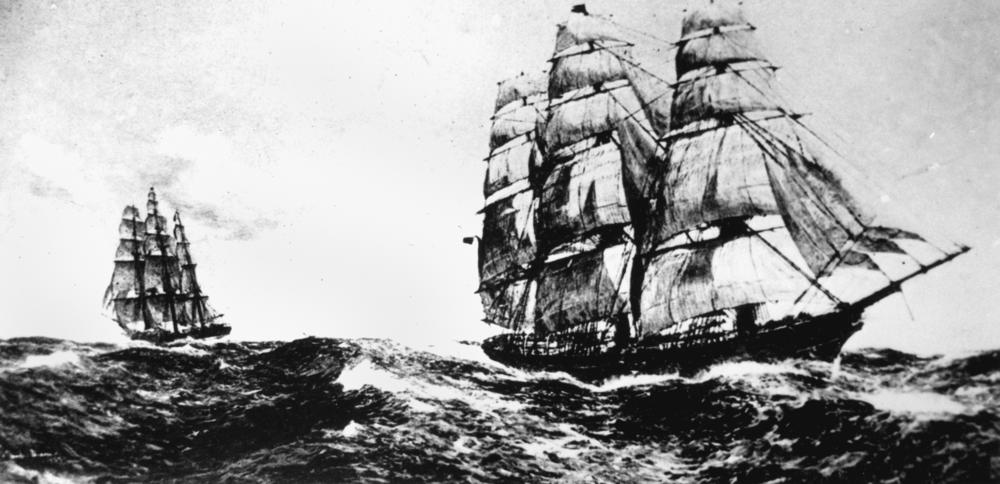 James Baines (ship) The photograph shows the 'James Baines' and the 'Lightening'. (Description supplied with photograph).